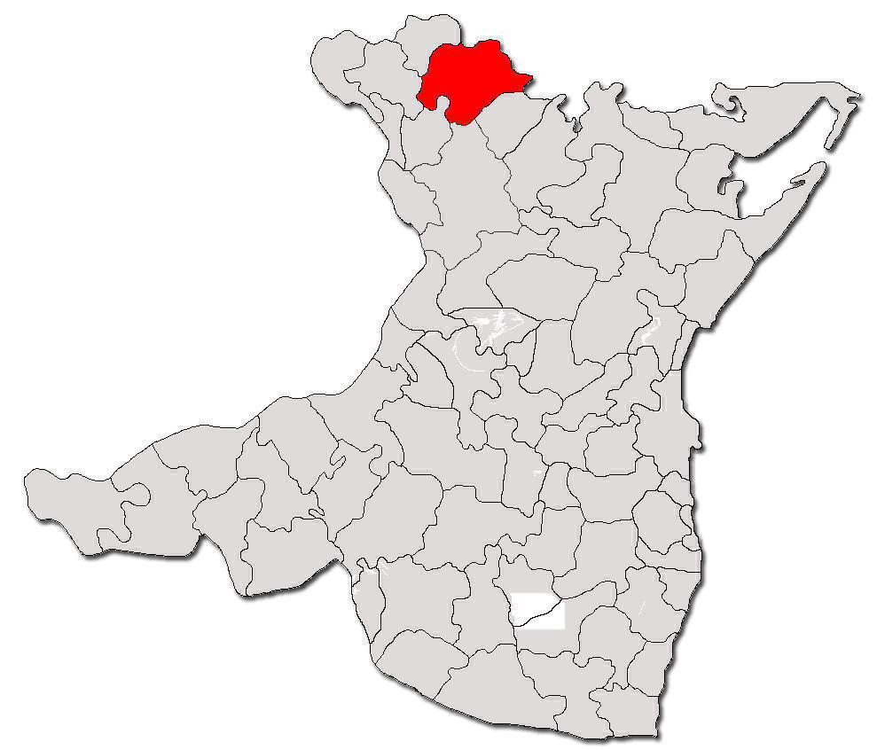 Countour map of Saraiu commune